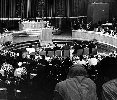 Egypt´s president Nasser at the African Summit conference in Cairo